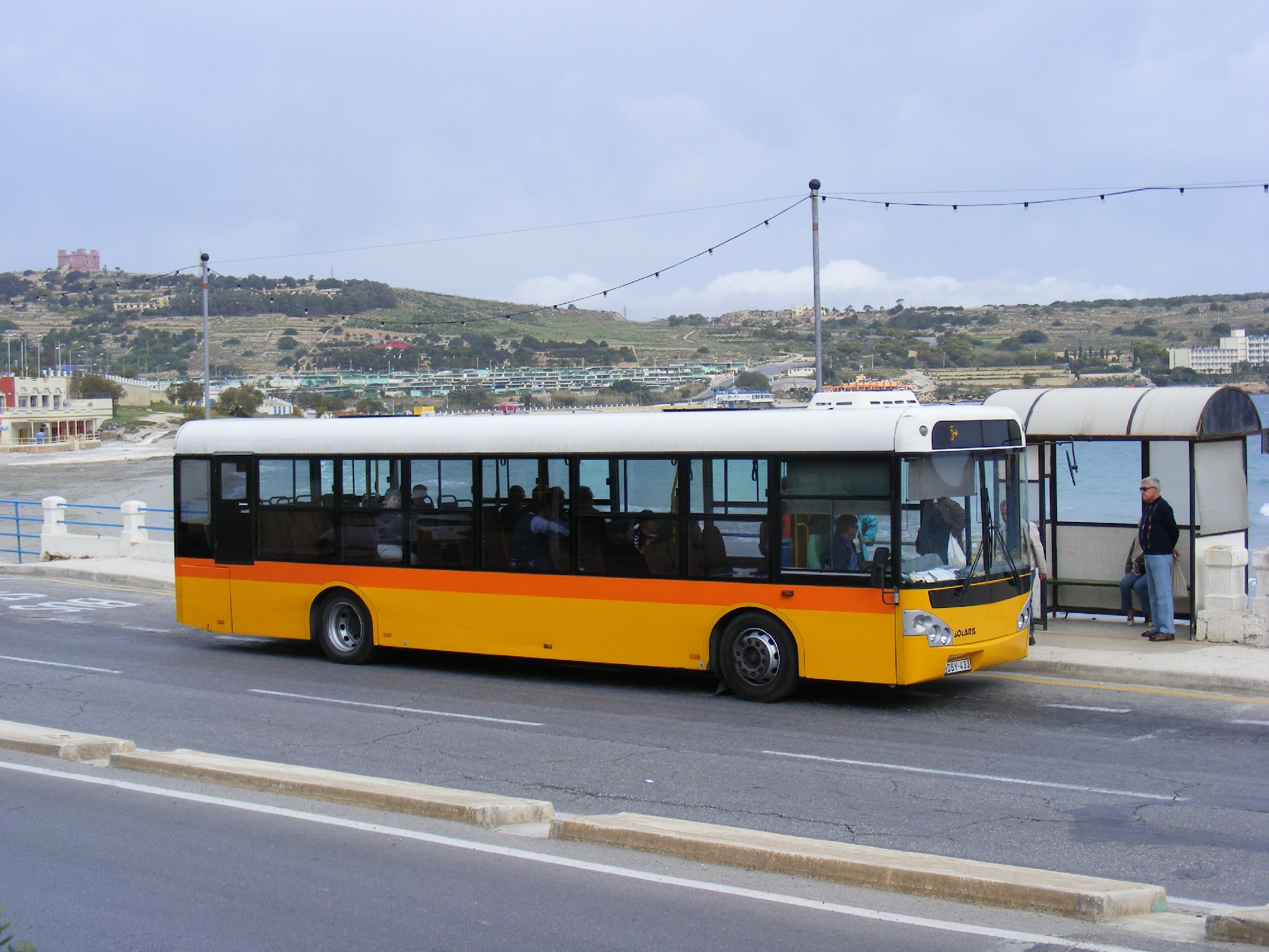 Solaris Valletta bus (reg. DBY 433, built 2002) in Malta, Assocjazzjoni Trasport Pubbliku (ATP) from Ħamrun operator. Solaris Valletta buses are produced near Poznań, Poland. Apparently this model is no longer manufactured, and only a prototype which stayed in Poland and three others which were sold to Malta were produced. So a rare vehicle. Technical details here. Apparently with Iveco engine. 11 meter length, very attractive.